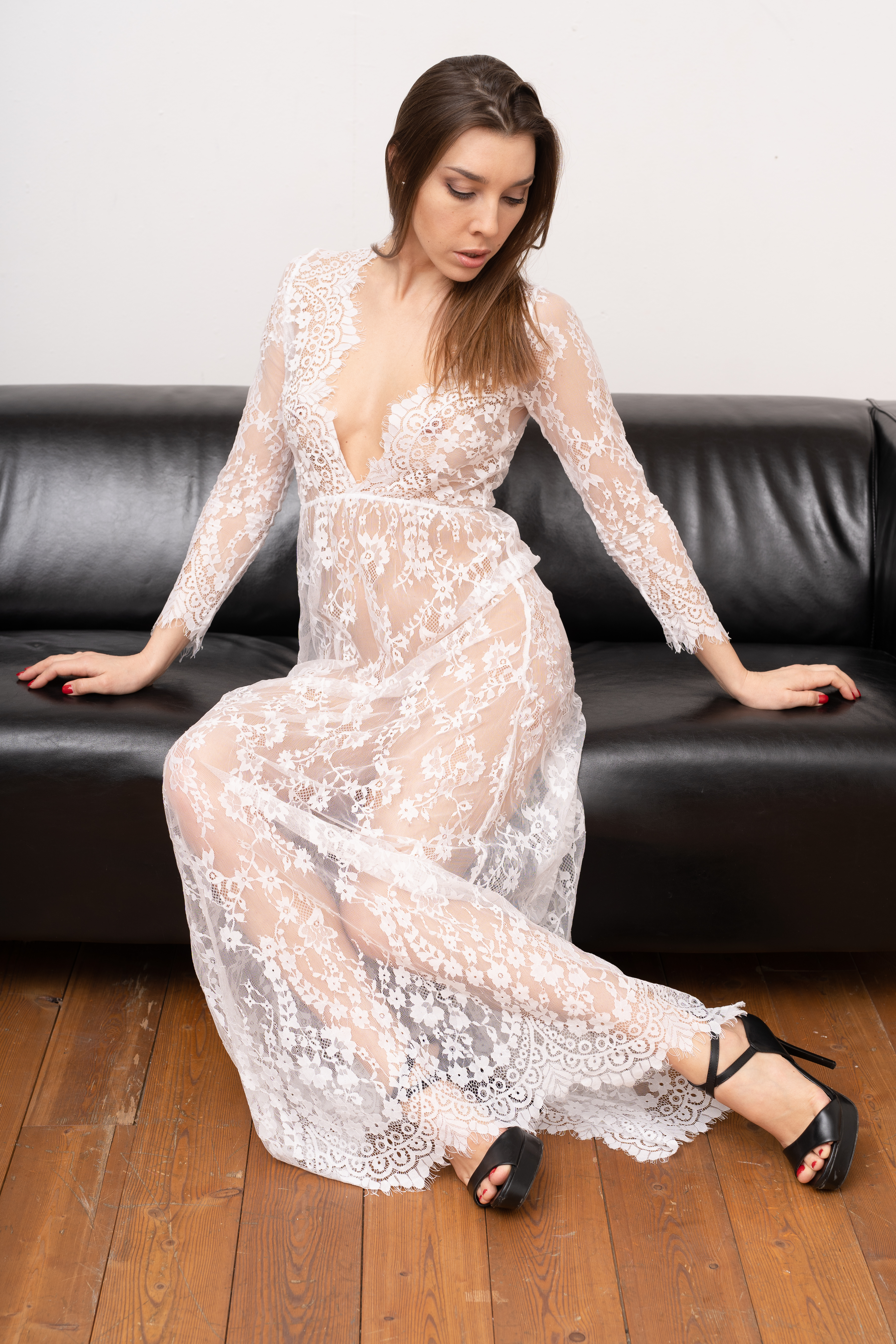 Negligee made of transparent white lace on black leather couch.